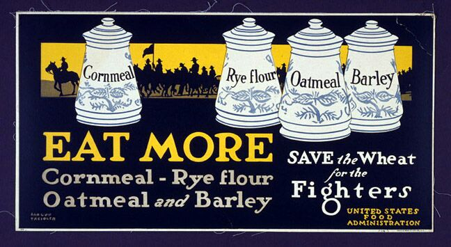 US Food Administration poster 1917 US government agency never copyright